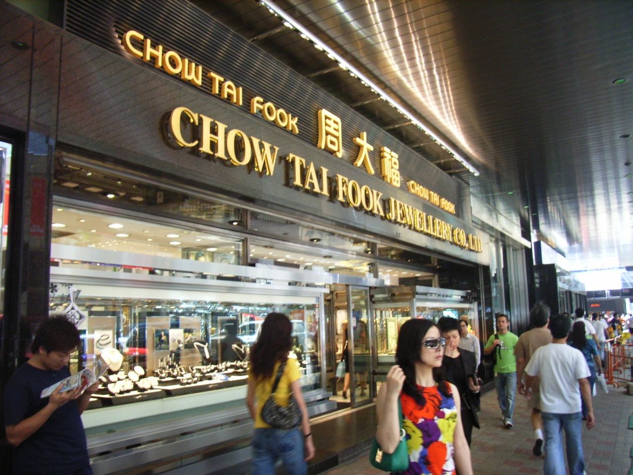 香港中環皇后大道中, Queen's Road Central, Hong Kong by ShingWong